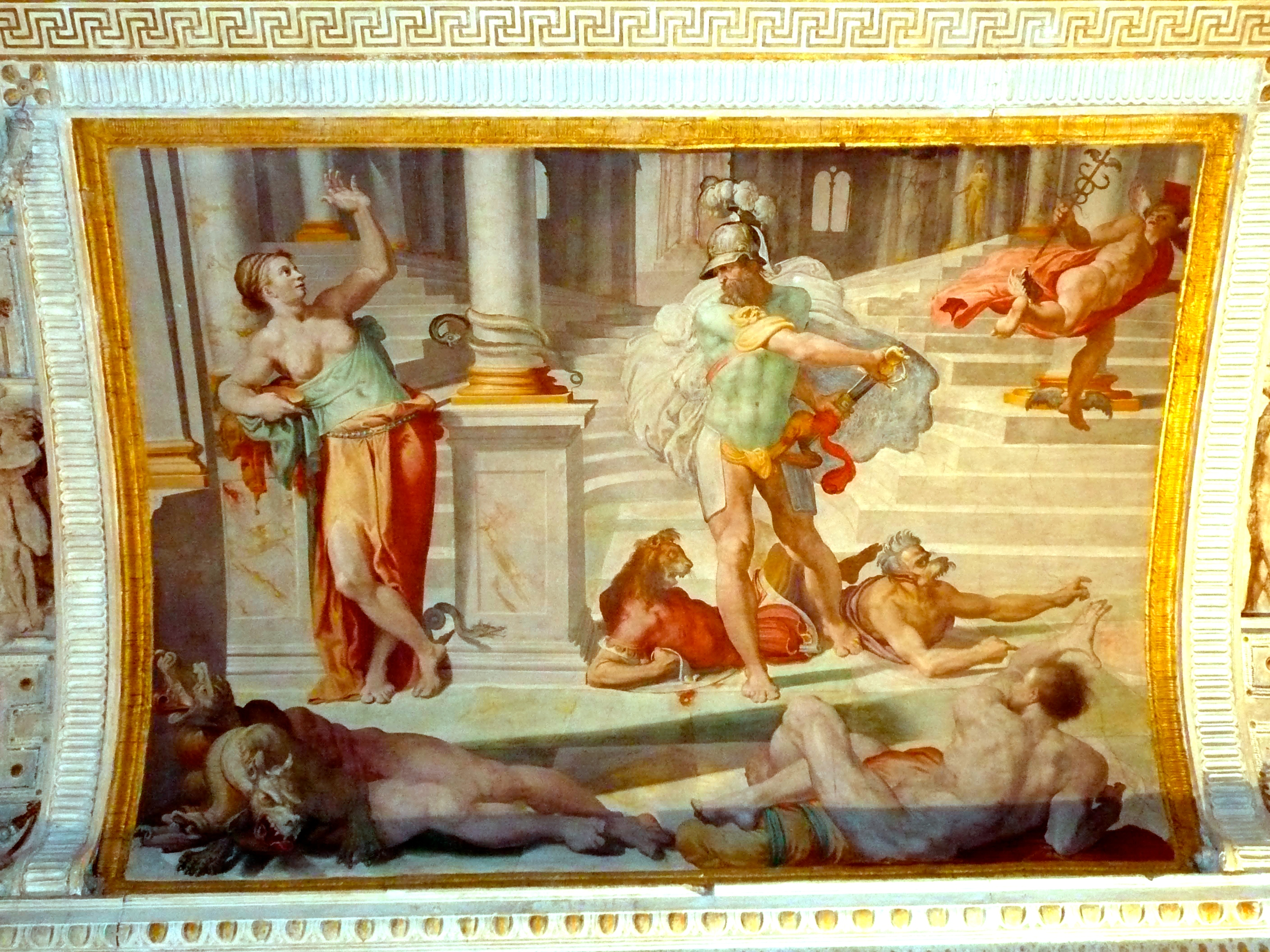 Ceiling frescos with Story of Ulysses by Pellegrino Tibaldi in Palazzo Poggi (Bologna)